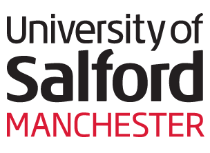 University of Salford logo